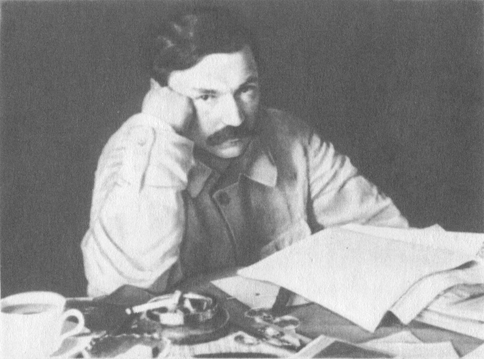 Russian revolutionary Vyacheslav Menzhinsky (1874—1934)